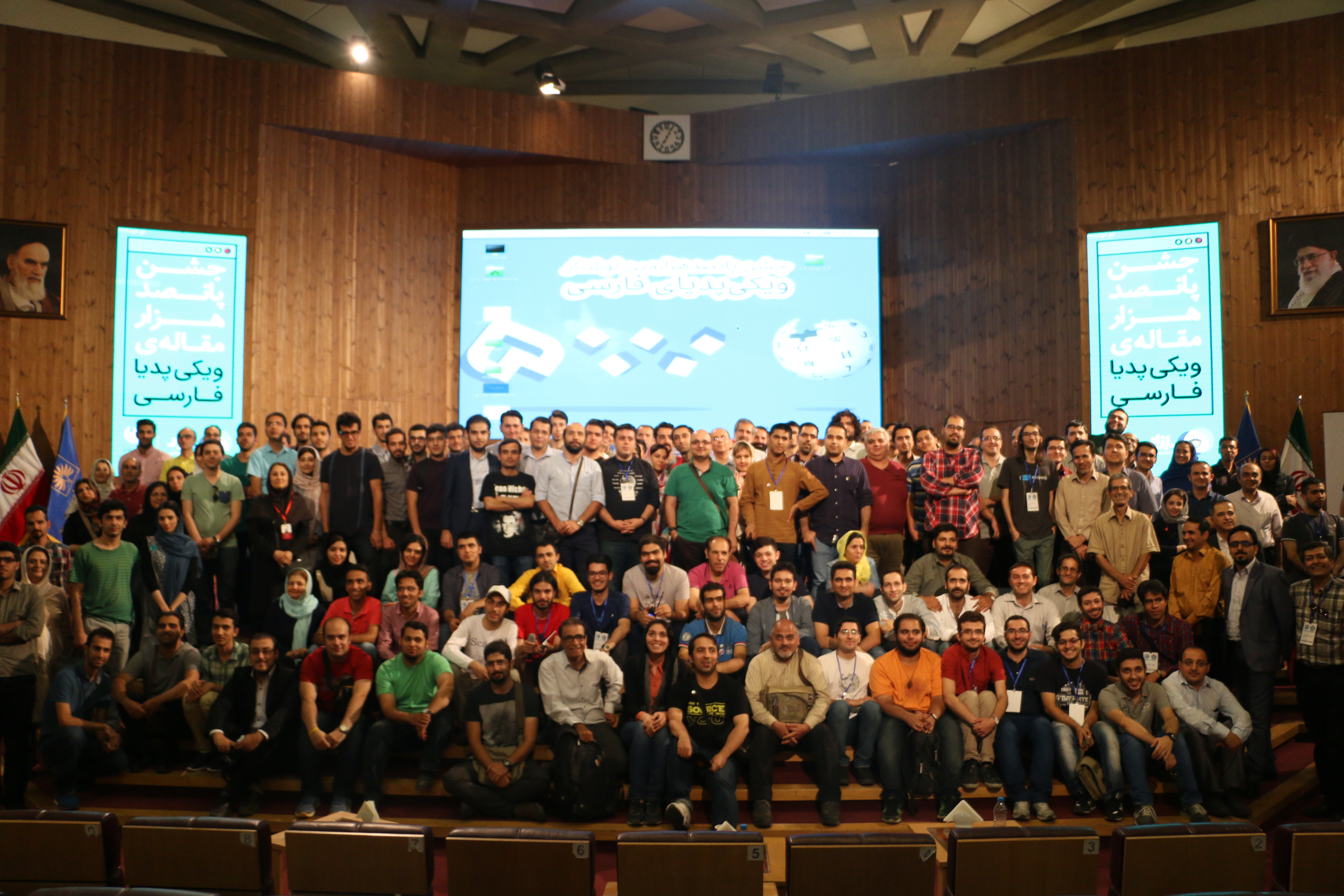 Farsi Wikipedia celebrates its 500K article milestone in Iranian national library in Tehran.